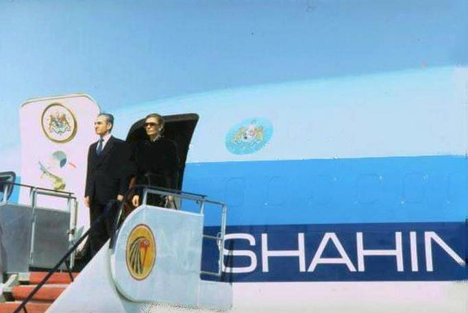 Shahin was most expensive Government owned luxury aircraft in Pahlavi dynasty. It was a Boeing 707.